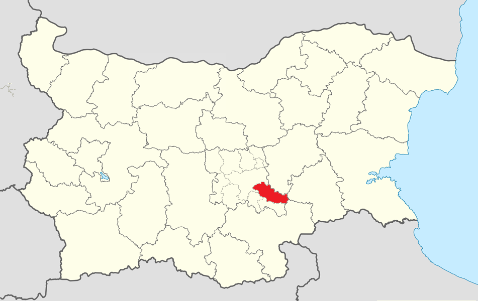 Location map of Radnevo Municipality within Bulgaria and Stara Zagora Province